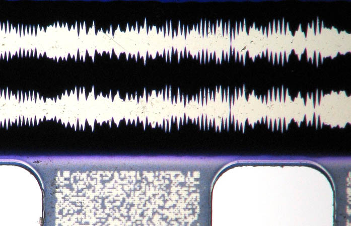 Macro of 35mm film audio tracks.